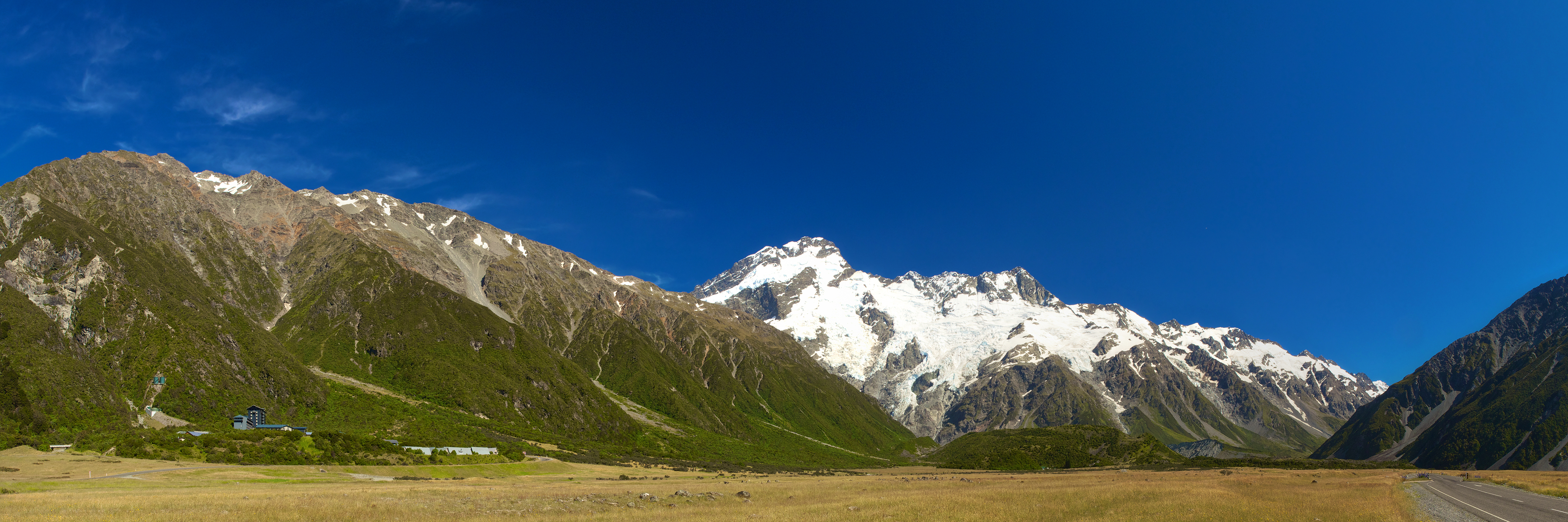 The Hooker valley with the Mount Cook Village and Mount Sefton in the background.